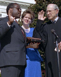 Clarence Thomas taking the oath of office to become an associate justice on the United States Supreme Court from Justice Byron White, during a ceremony at the White House on October 23, 1991, as his wife, Virginia Thomas, looks on.